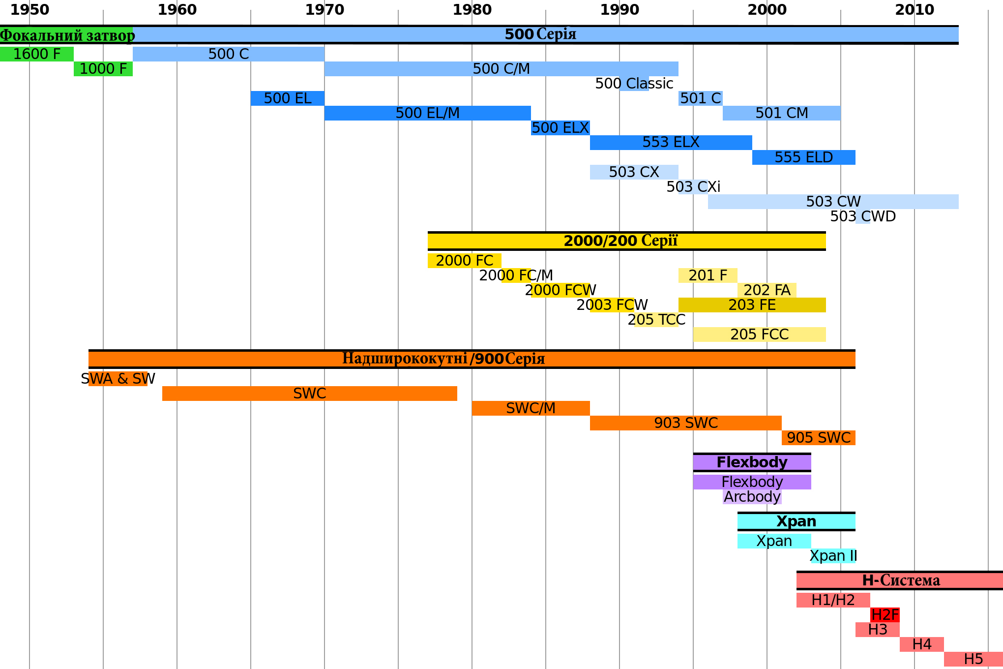 Hasselblad timeline-ukraine